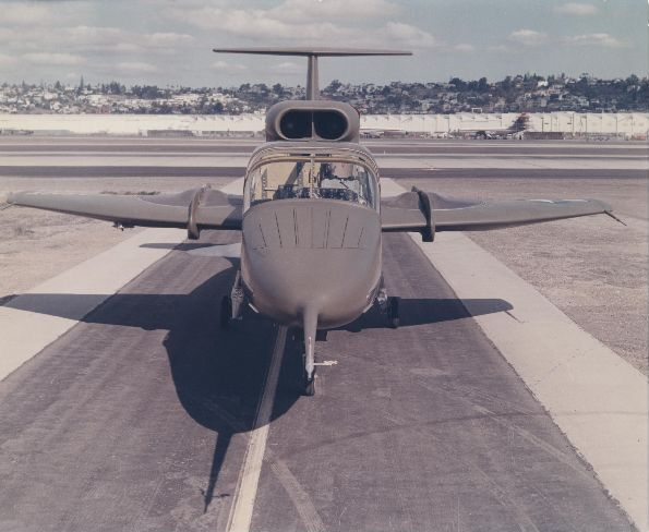 Color photo of XV-5A on ground at Lindbergh Field.